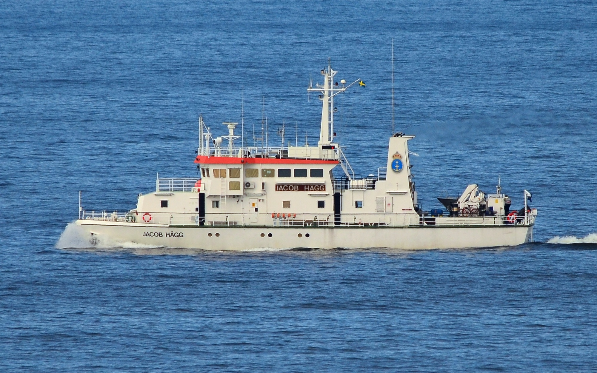 Hydrographic survey ship R/V Jacob Hägg.